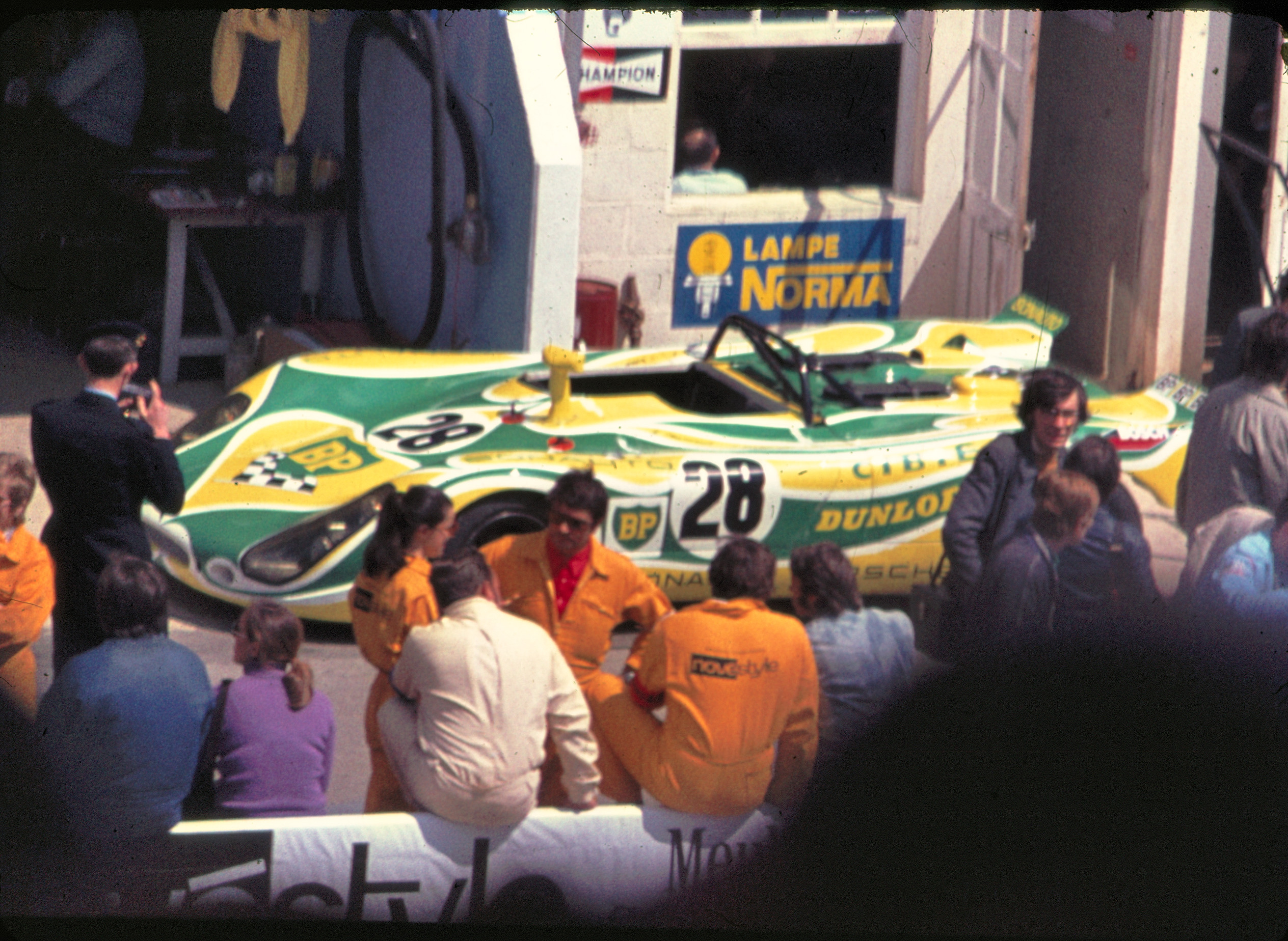 Porsche 908 / 02 N°28 Auguste Veuillet / Ets Sonauto Technique : Catégorie : SP Moteur : F8 Porsche 2997 cm3 Pilotes : Guy Chasseuil Claude Ballot Lena